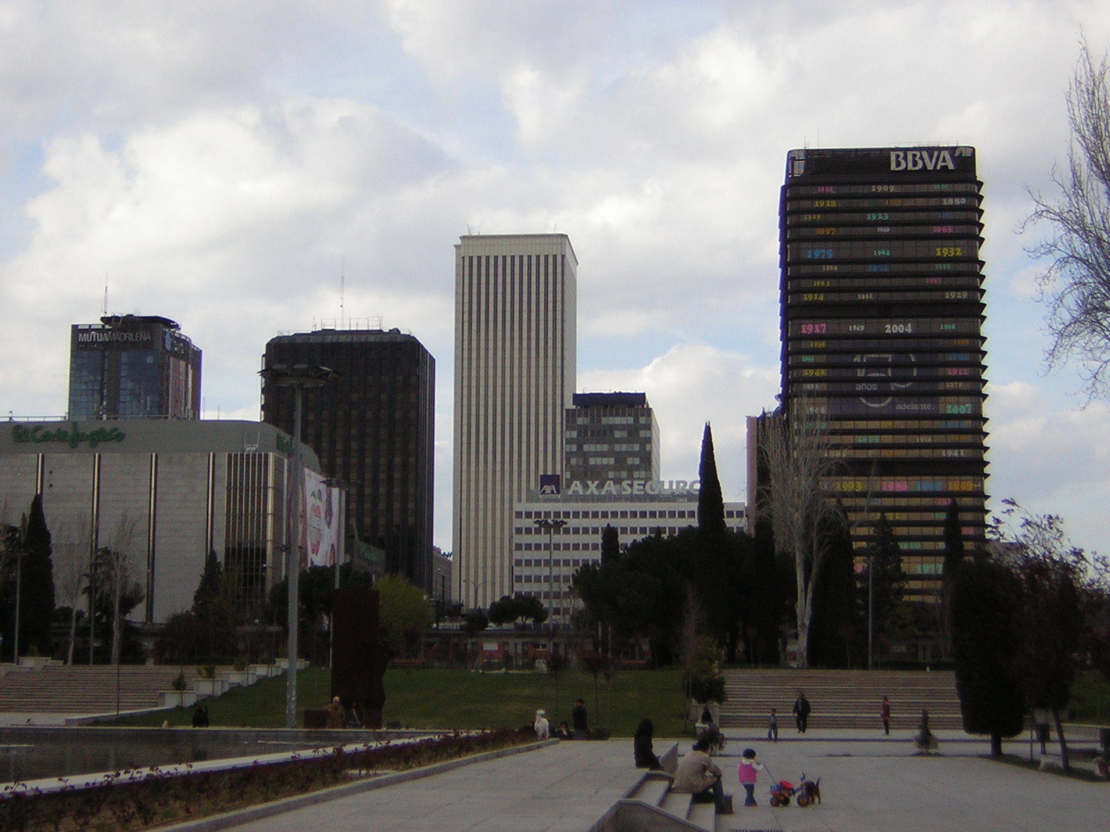 View of AZCA, a business park in Madrid (Spain).